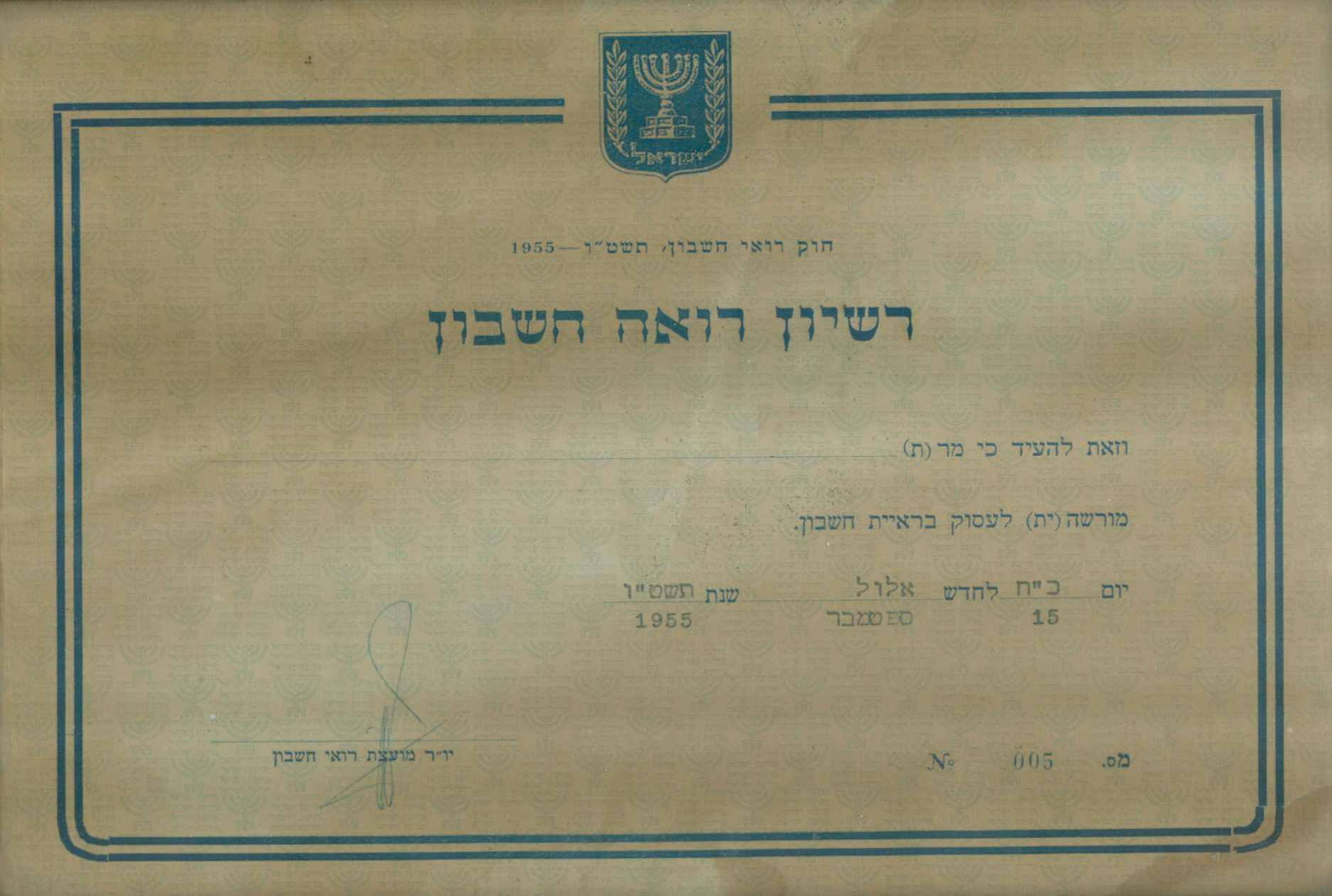 Certified Public Accountant - Israeli license from 1955